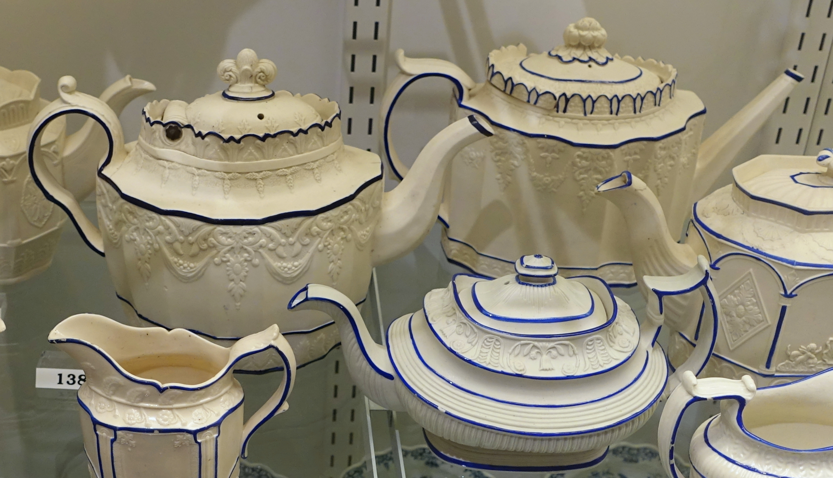 Exhibit in the Flynt Center of Early New England Life, Historic Deerfield - Deerfield, Massachusetts, USA.